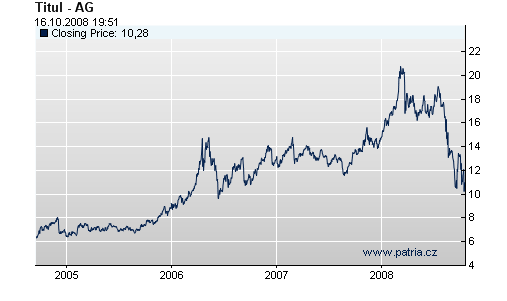 The history of the Silver price